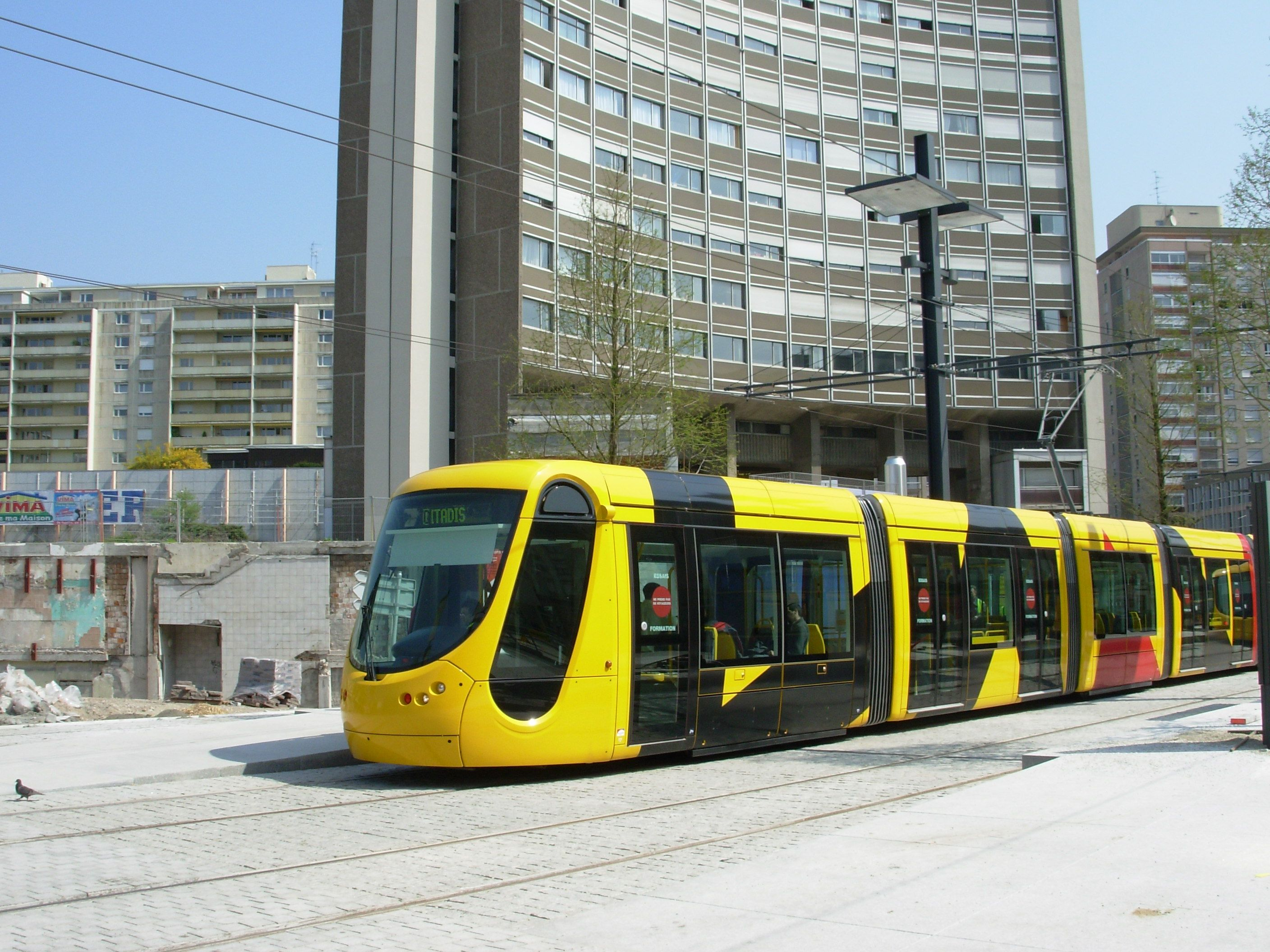 Mulhouse tramway undergoing testing near the Tower of Europe